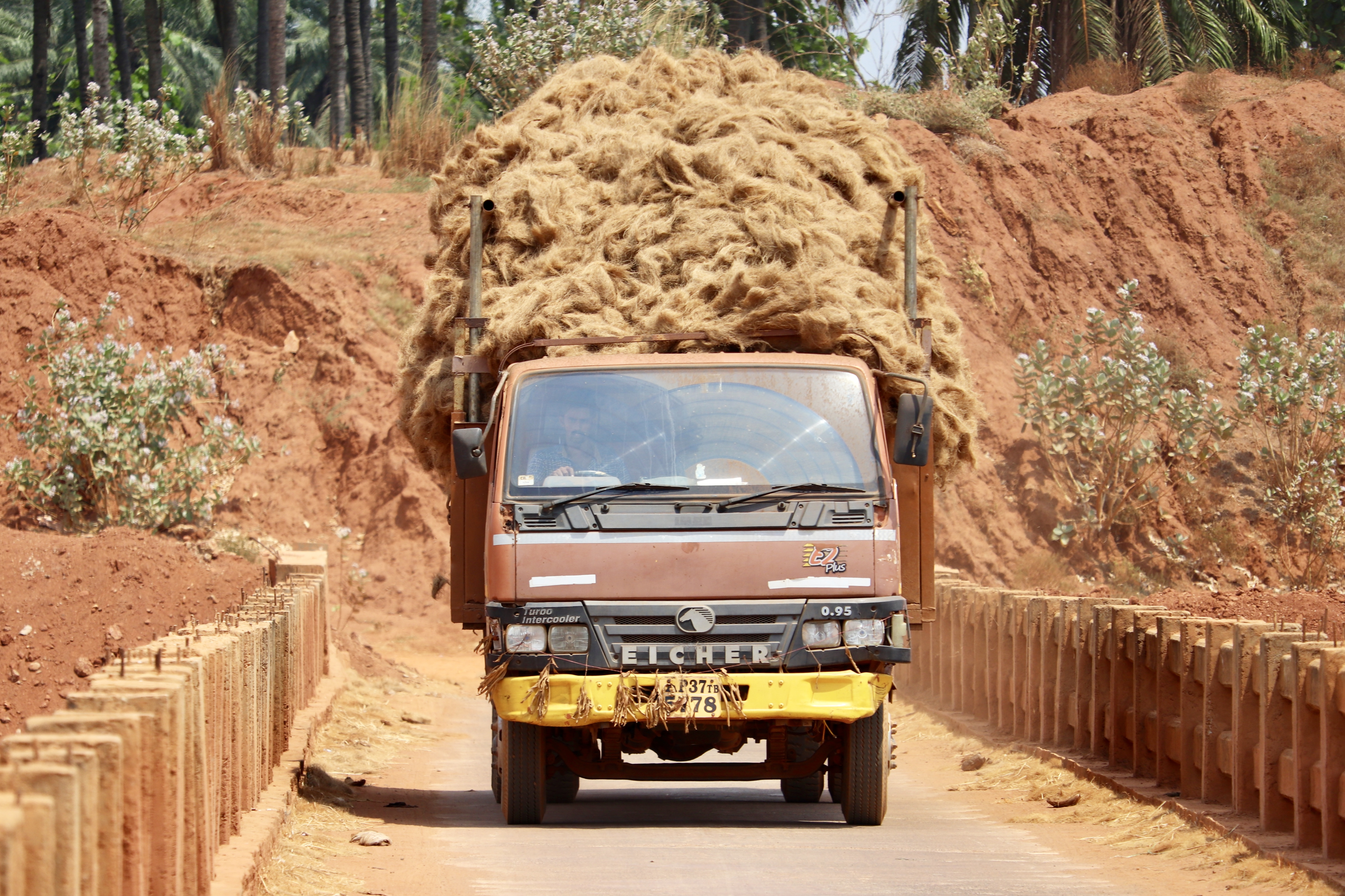 Palm fruit truck near Eluru